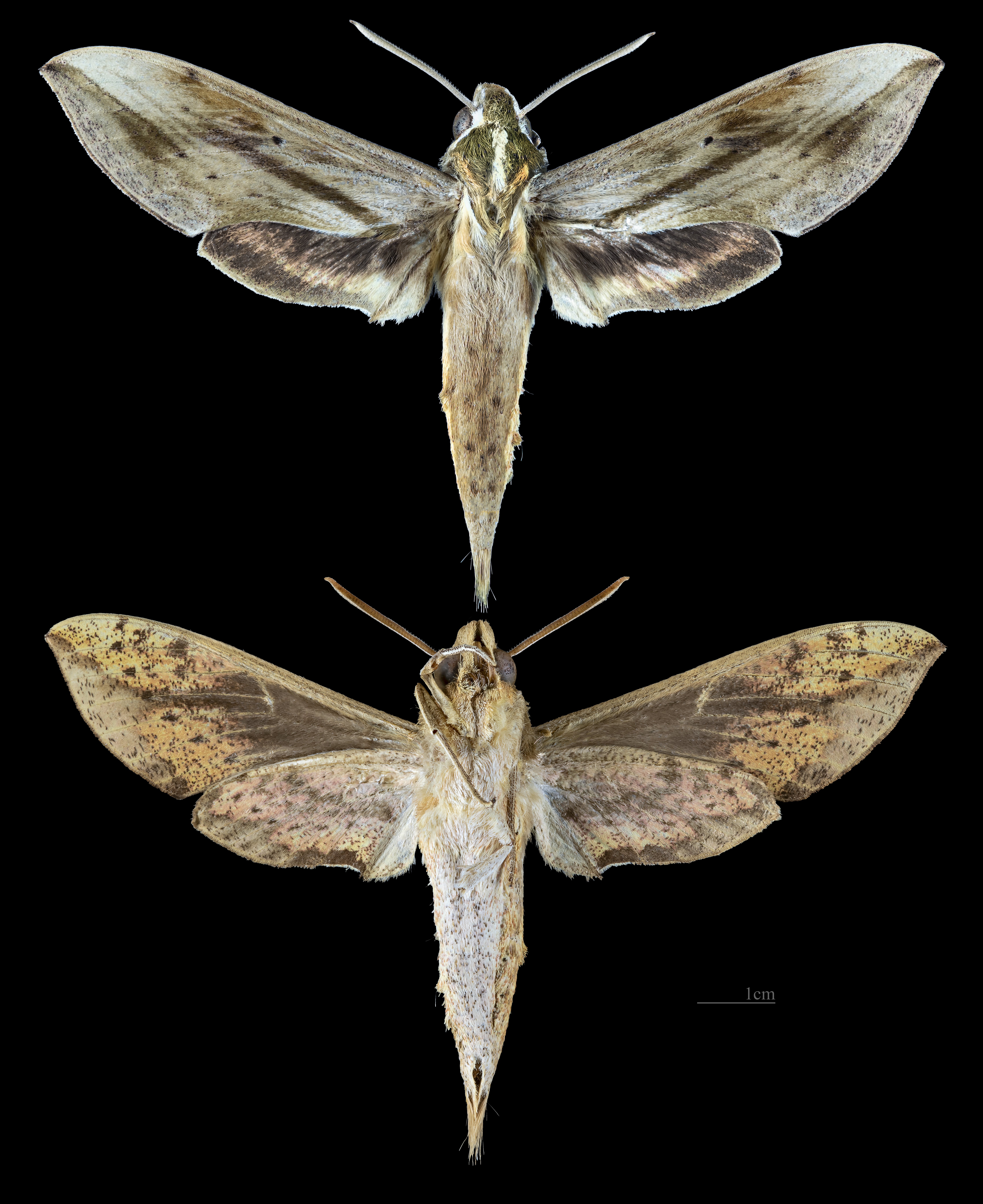 Xylophanes fosteri - Two views of same specimen Collection of the Mathematician Laurent Schwartz